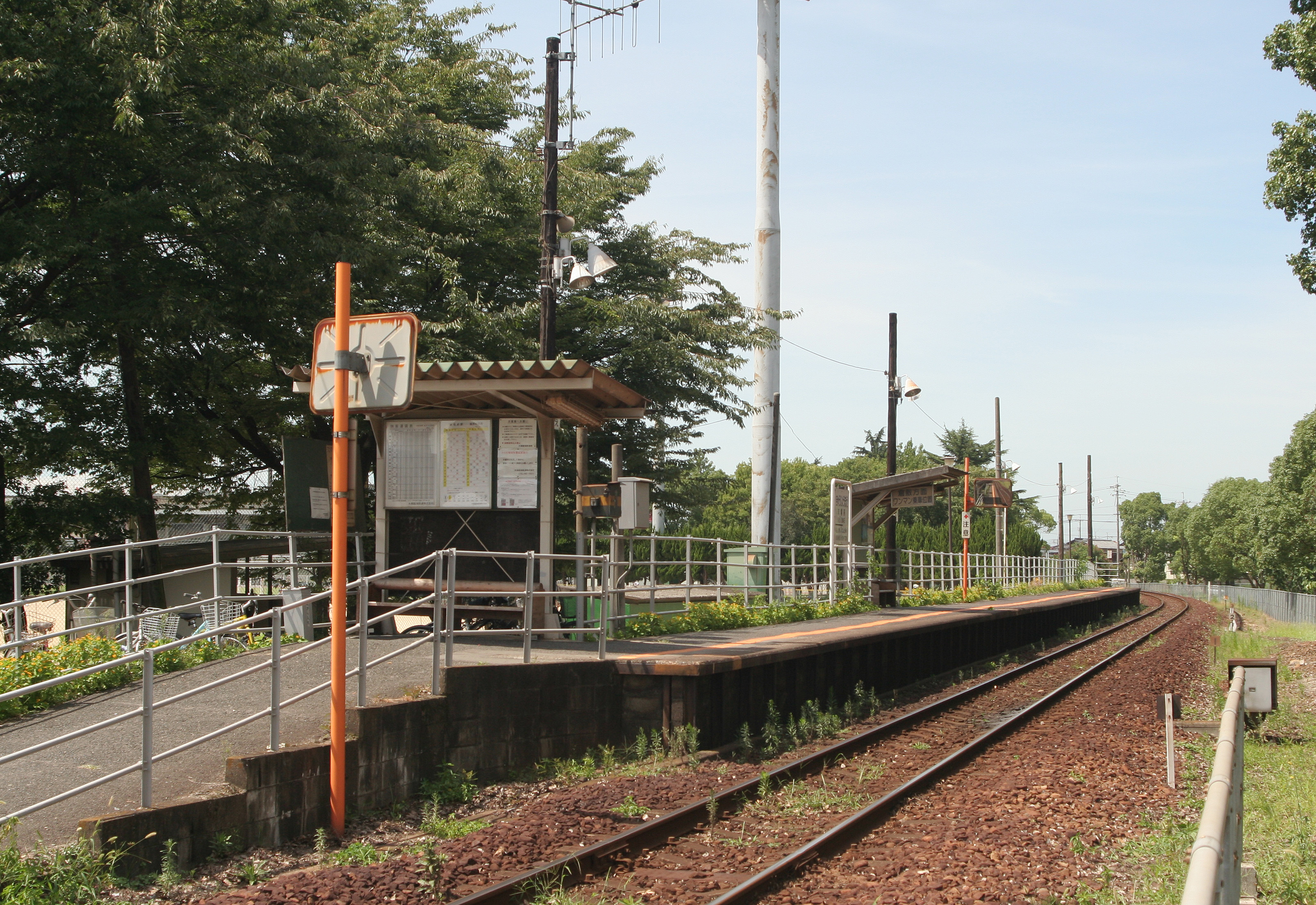 Mizushima Rinkai Railway Mizushima Main Line Kyūjō-mae Station enclosure